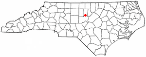 Category:North Carolina Dot Maps